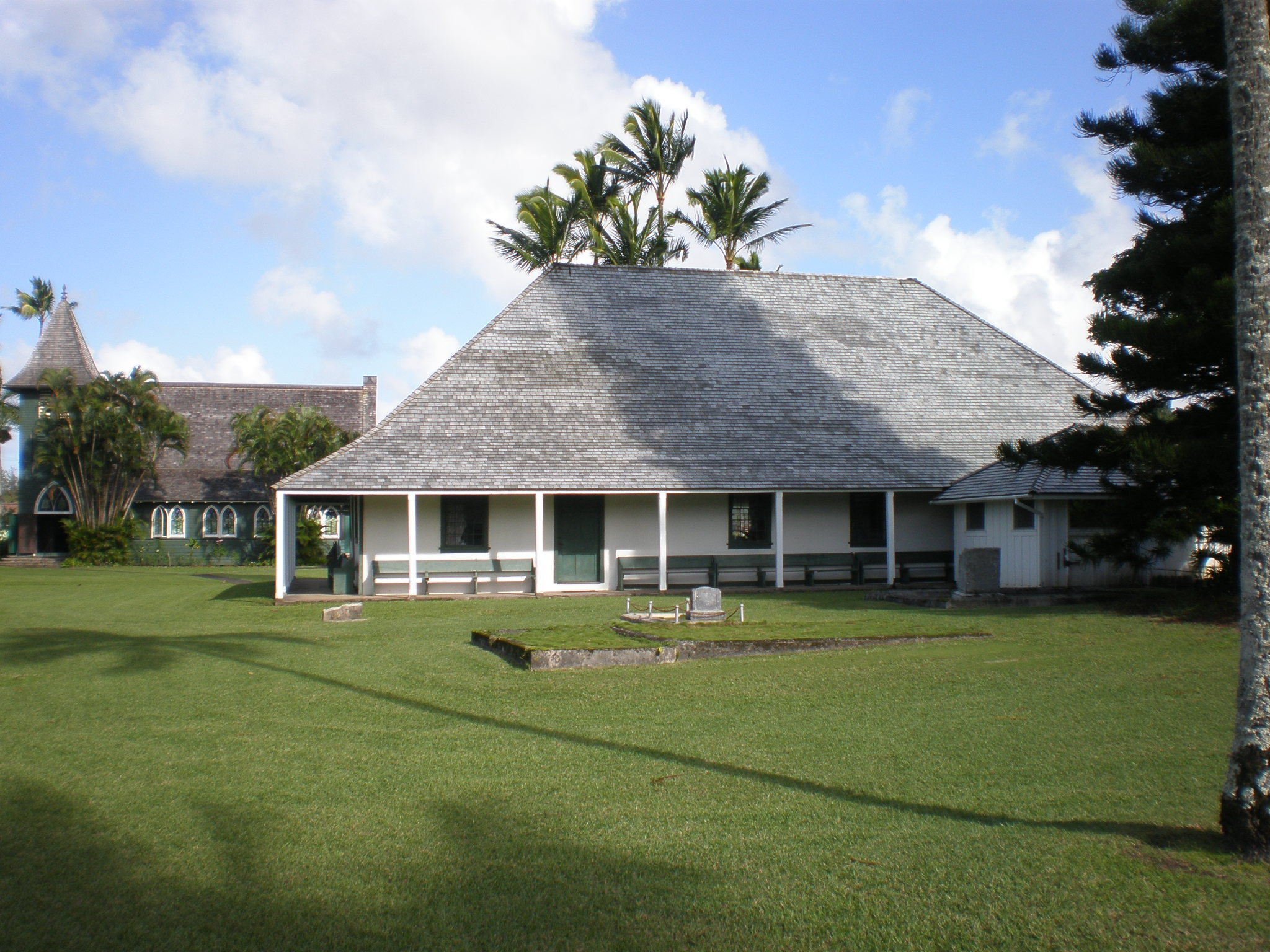 Waiʻoli Mission Hall and Waiʻoli Huiʻia Church, Hanalei, Kauaʻi, on National Register of Historic Places, est. 1834